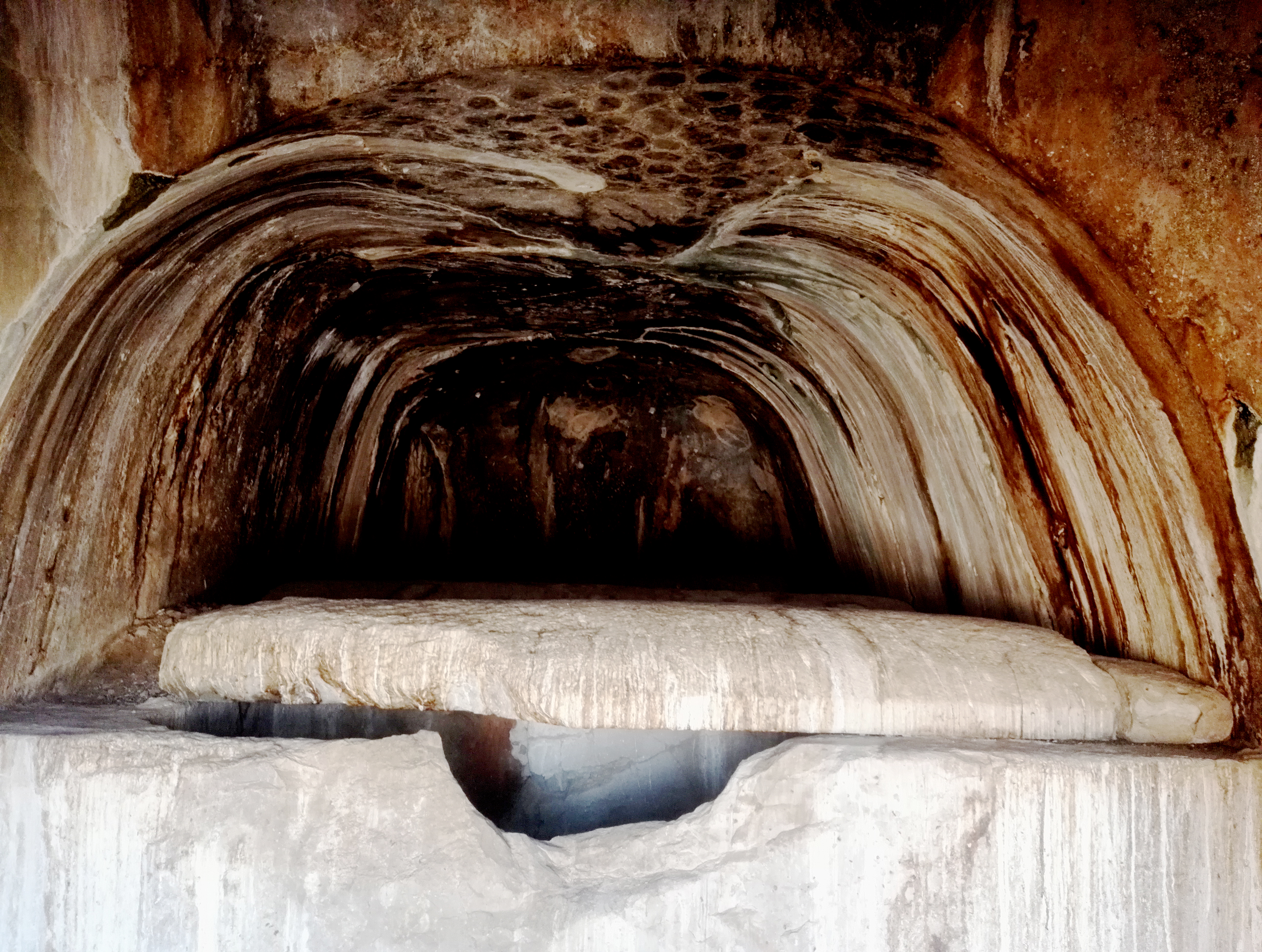 TOMD OF XERXES;NAGSH-E-ROSTAM;XERXES;XERXES I;MARVDASHT;IRAN FARS MARVDASHT;nima boroumand;Naqsh-e_Rustam